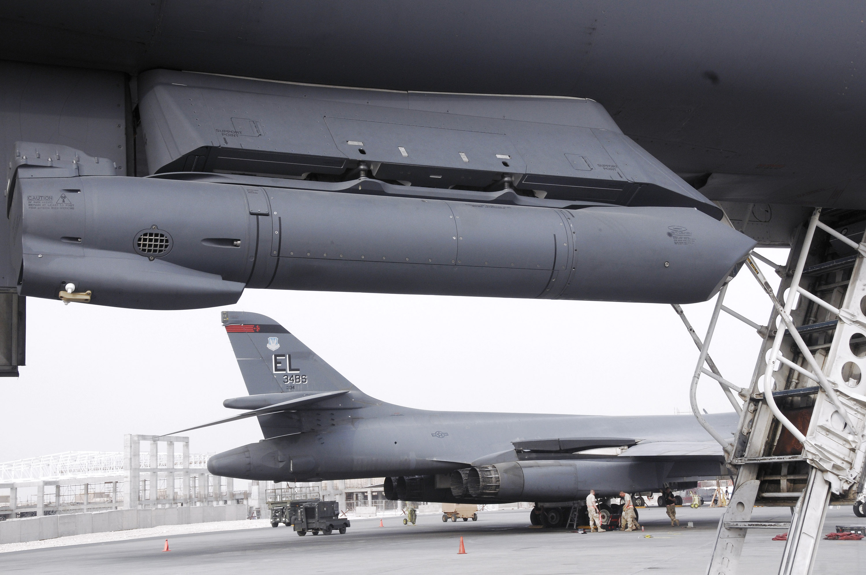 A Sniper Advanced Targeting Pod hangs from the underbelly of a B-1B Lancer after a recent mission in Southwest Asia Aug. 5. The Sniper ATP provides enhanced target identification for aircrew, allowing them to detect and analyze targets on the ground via real-time imagery.